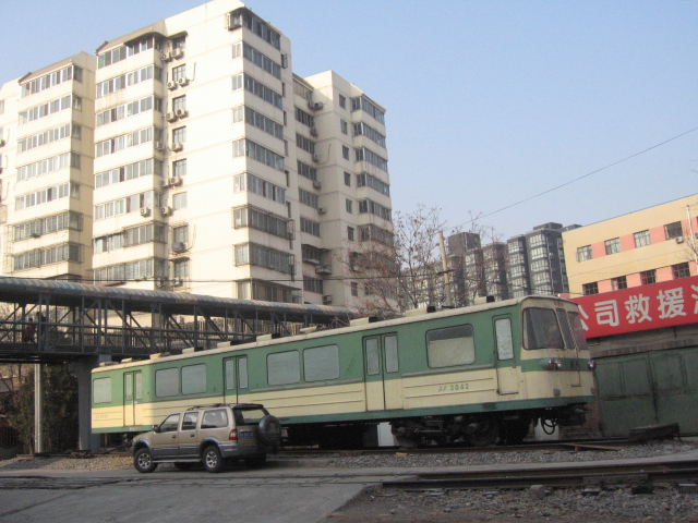 This DK2 train, nicknamed "Green Bread", was seen at Taipinghu for emergency drill. We can see that not all the DK2s were converted to DK11s in 1985.